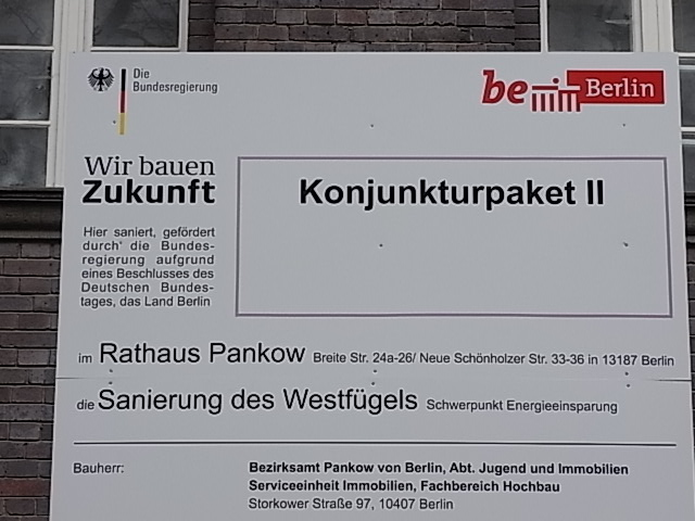 Placard describing stimulus package "Konjunkturpaket II" in Berlin-Pankow.